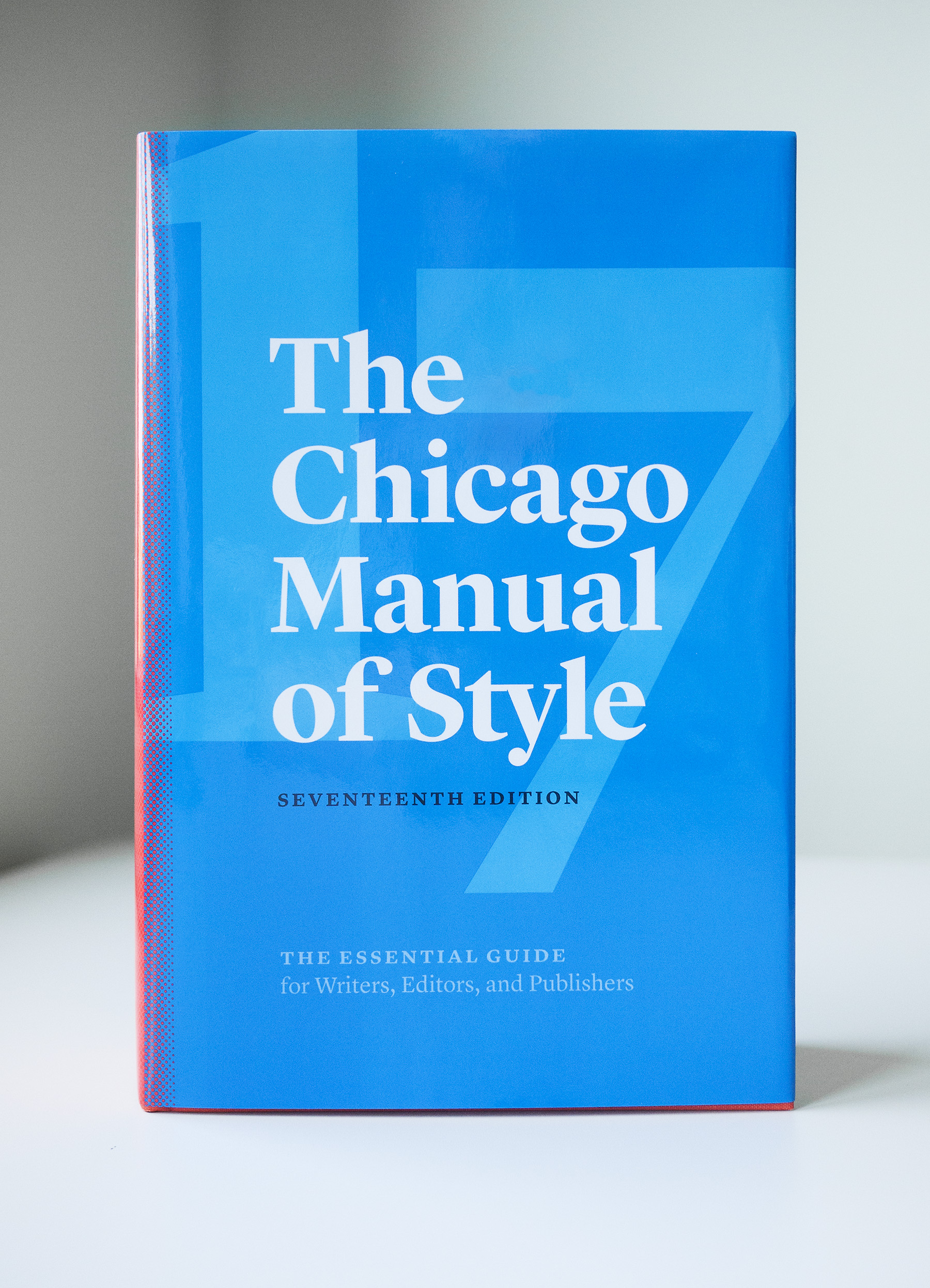 Book jacket photo of the seventeenth edition of the Chicago Manual of Style. September 2017.